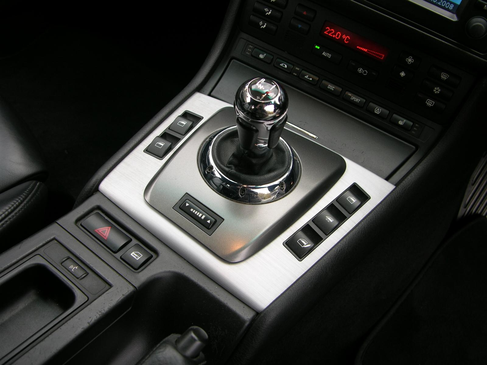 BMW M3 SMG Convertible